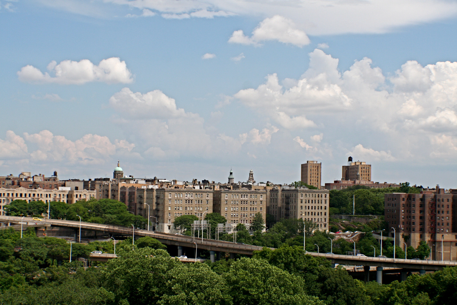 Washington Heights from the George Washington Bridge